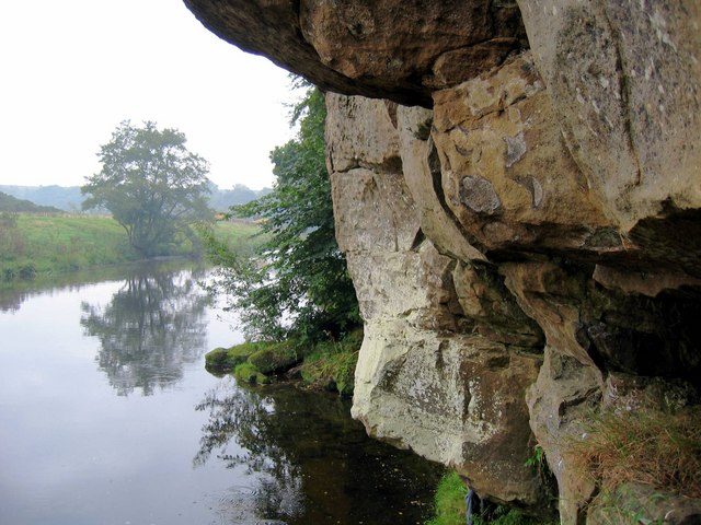 River Coquet at Morwick Crag